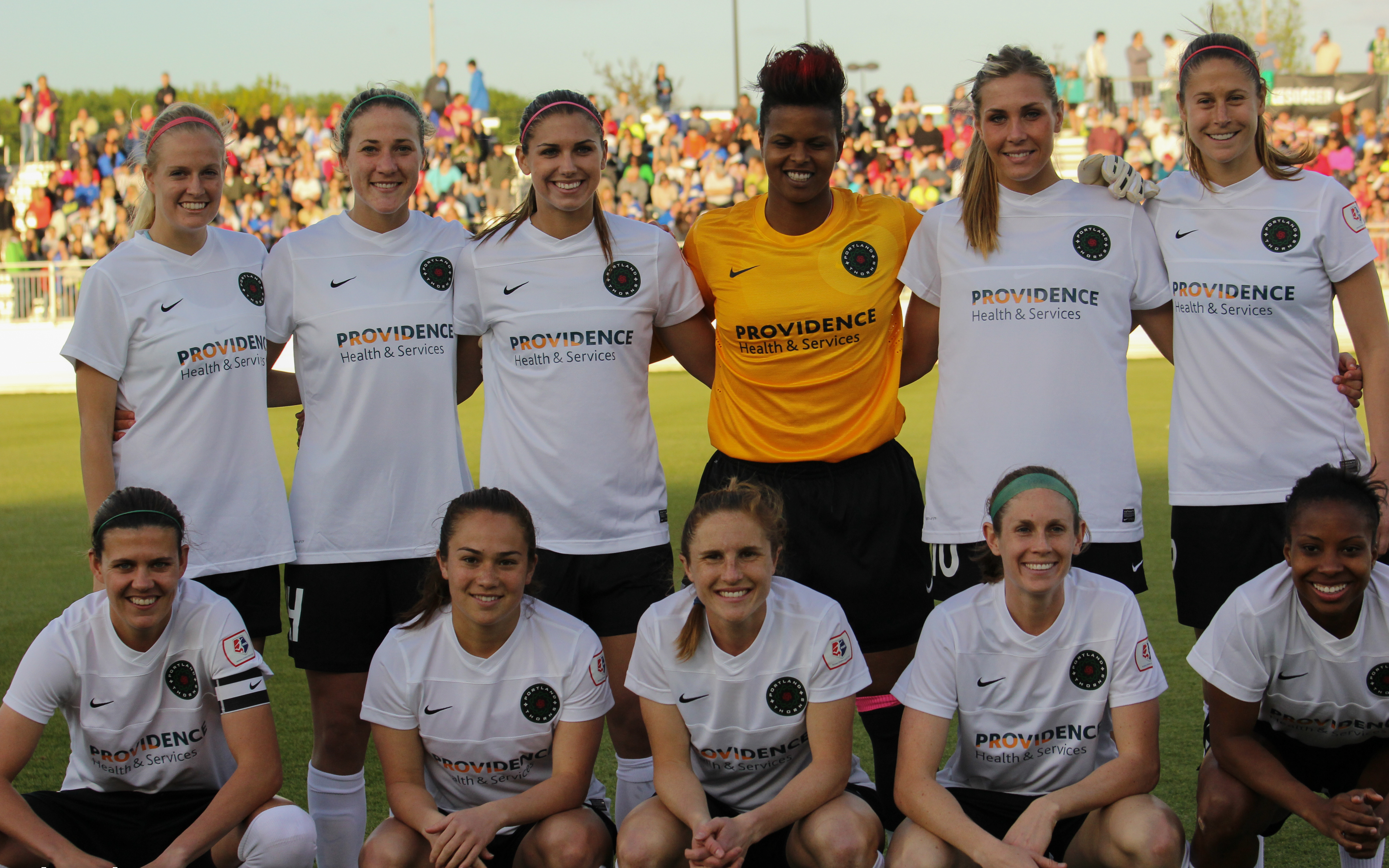 2013-05-04 Thorns-44